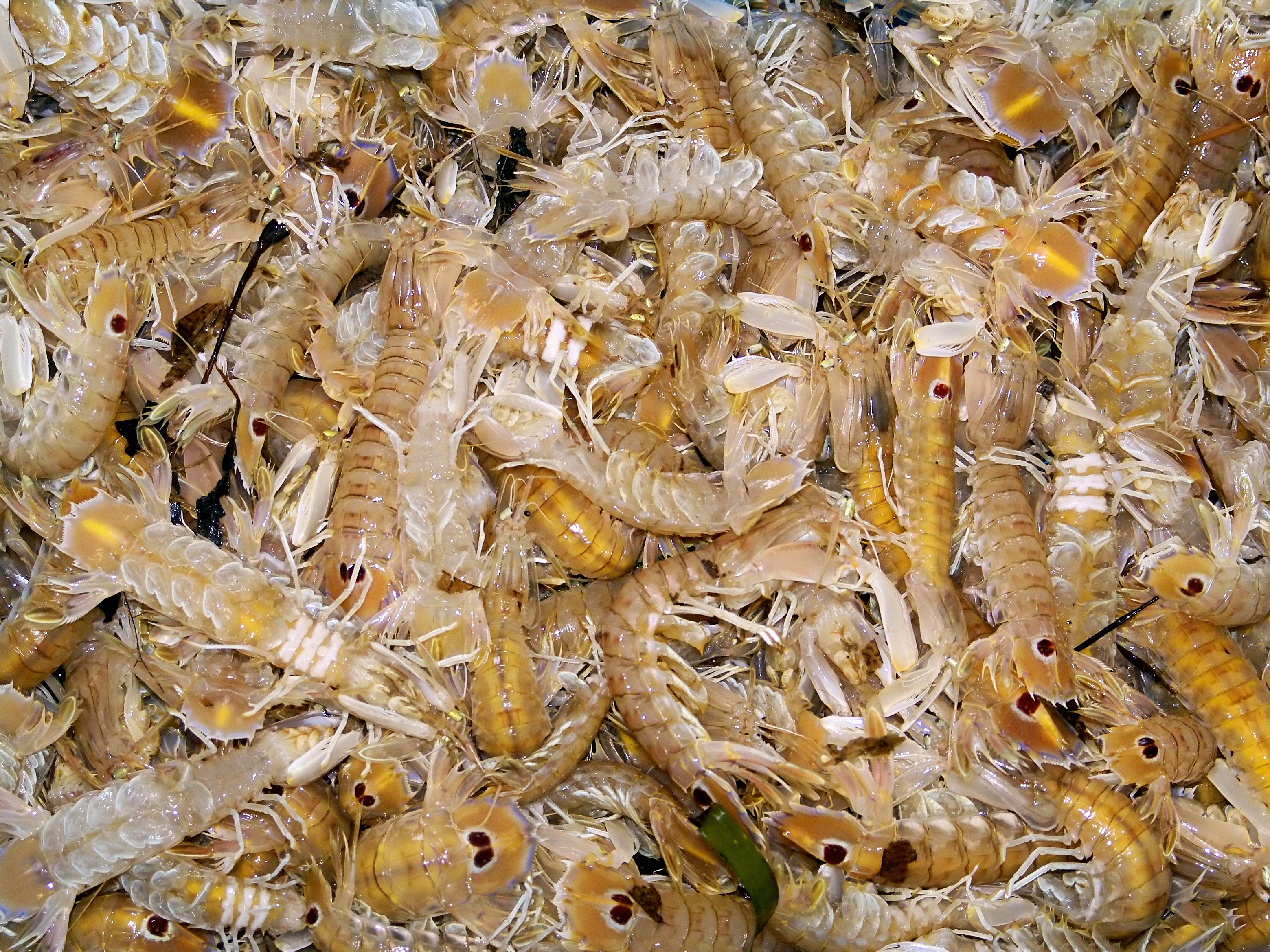 At the Fish auction of l'Ametlla de Mar, Catalonia, Spain